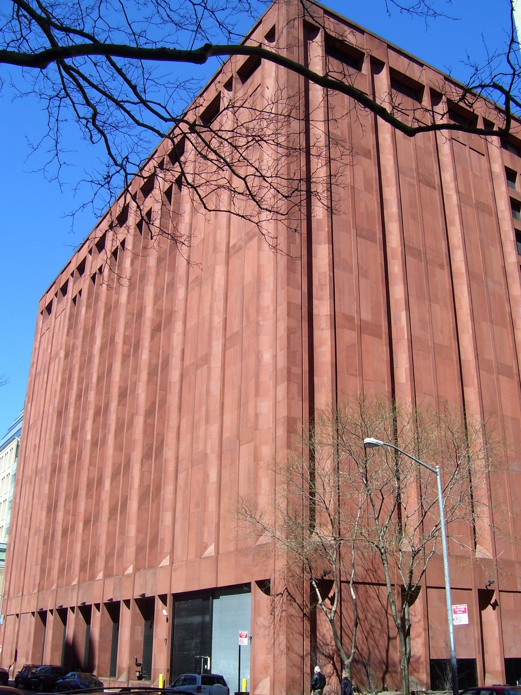 NYU's Bobst Library, south facade on West 3rd Street between Schwartz Plaza and LaGuardia Place in the Greenwich Village neighborhood Manhattan, New York City.